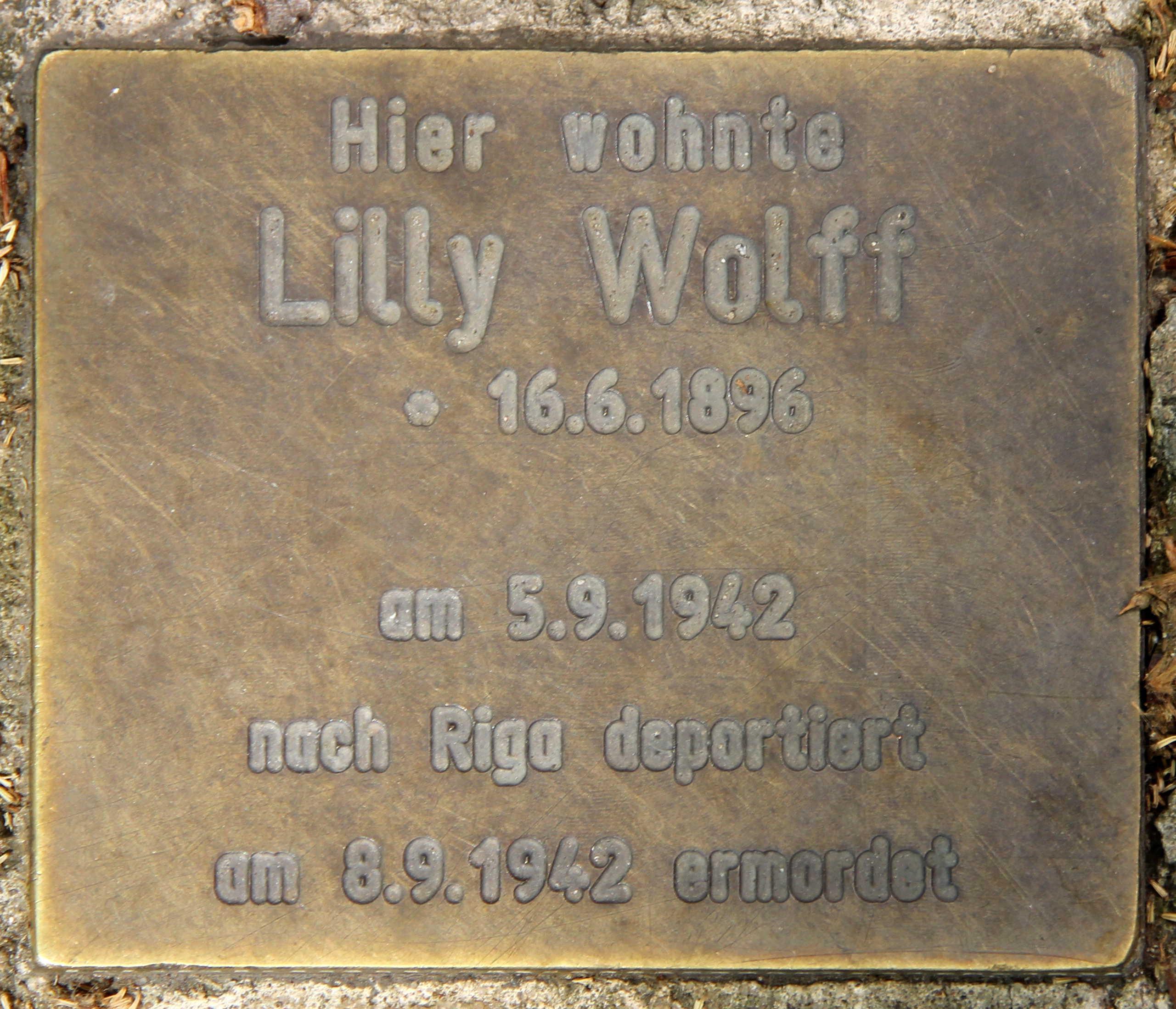 "Denkstein" (stumbling block), Lilly Wolff, Spichernstraße 7, Berlin-Wilmersdorf, Germany